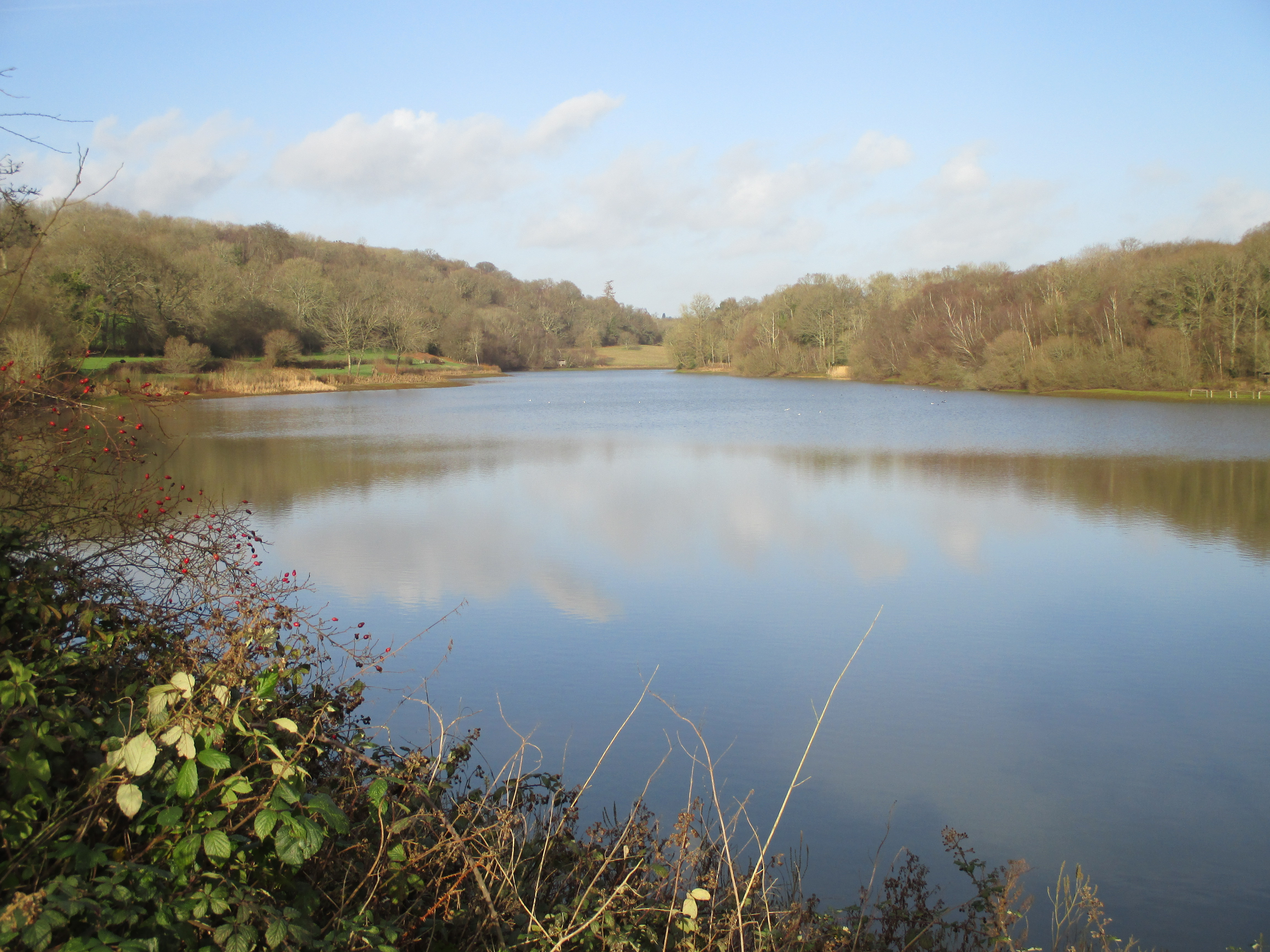 The northern (not north-western) branch of Ardingly Reservoir, West Sussex, photographed from the causeway to its south.